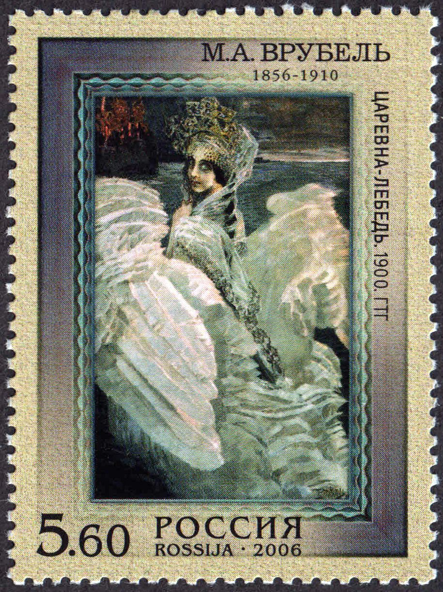 150th birth anniversary of the Russian painter Mikhail Vrubel (1856–1910).Swan Princess by Mikhail Vrubel. 1900.The stamp of Russia, 5.60 Rubles, 27 February 2006, PTC Marka Catalogue No 1078, Michel No 1310. Coated paper. Offset printing, varnish coating. Perforation: comb 12. Size of the stamp: 37×50 mm. Print run: 600,000.